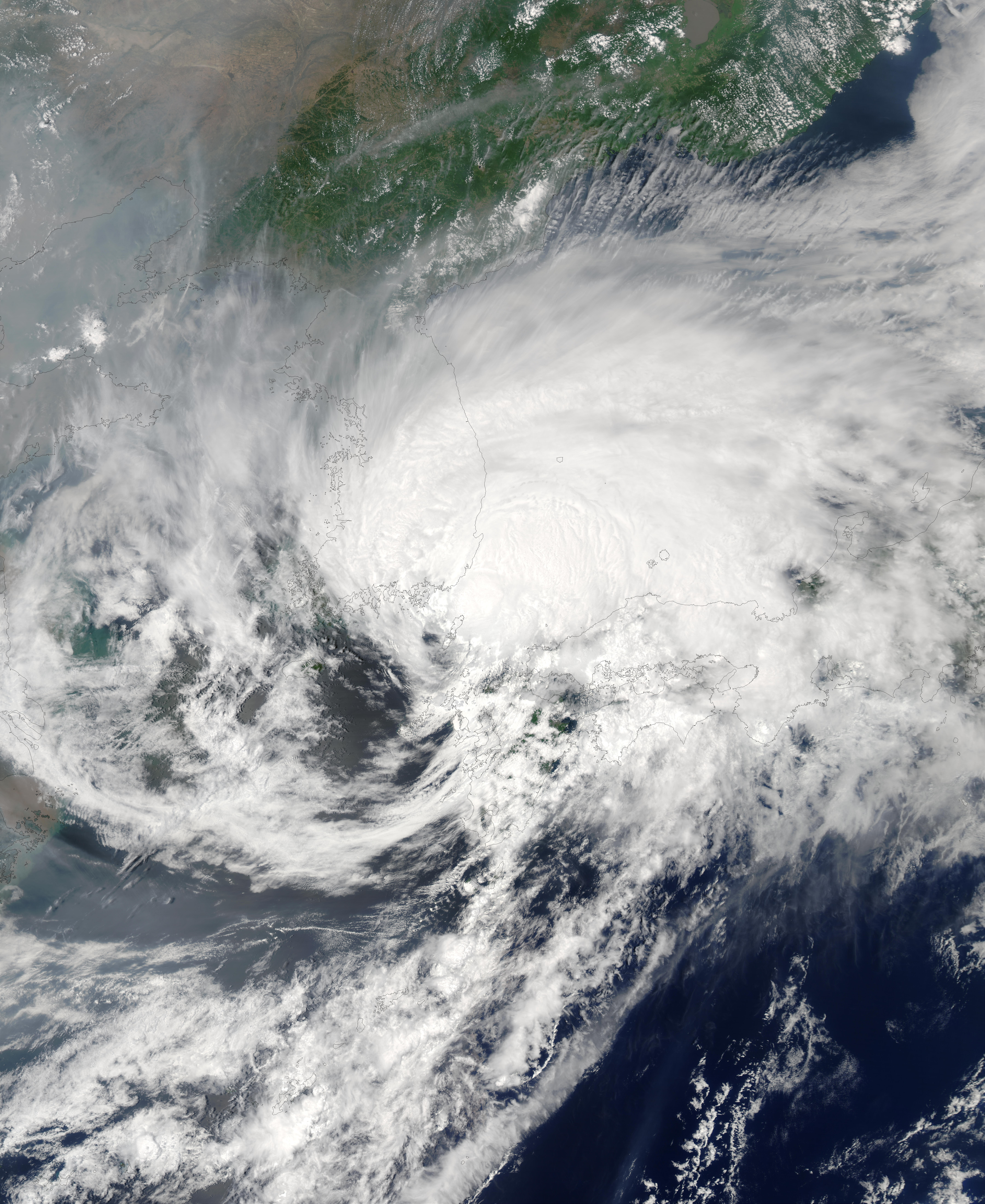 On Thursday, June 19, 2003, the Moderate Resolution Imaging Spectroradiometer (MODIS) instrument onboard the Aqua spacecraft captured this true-color image of Typhoon Soudelor centered between Korea and Japan at the southern edge of the Sea of Japan. At the time this image was taken Soudelor was packing maximum sustained winds of 70 mph with slightly higher gusts. The Japan Meteorological Agency had issued heavy rain, strong wind, and high wave warnings for southern Kyushu, but was expecting the storm to weaken over the next 12 hours.